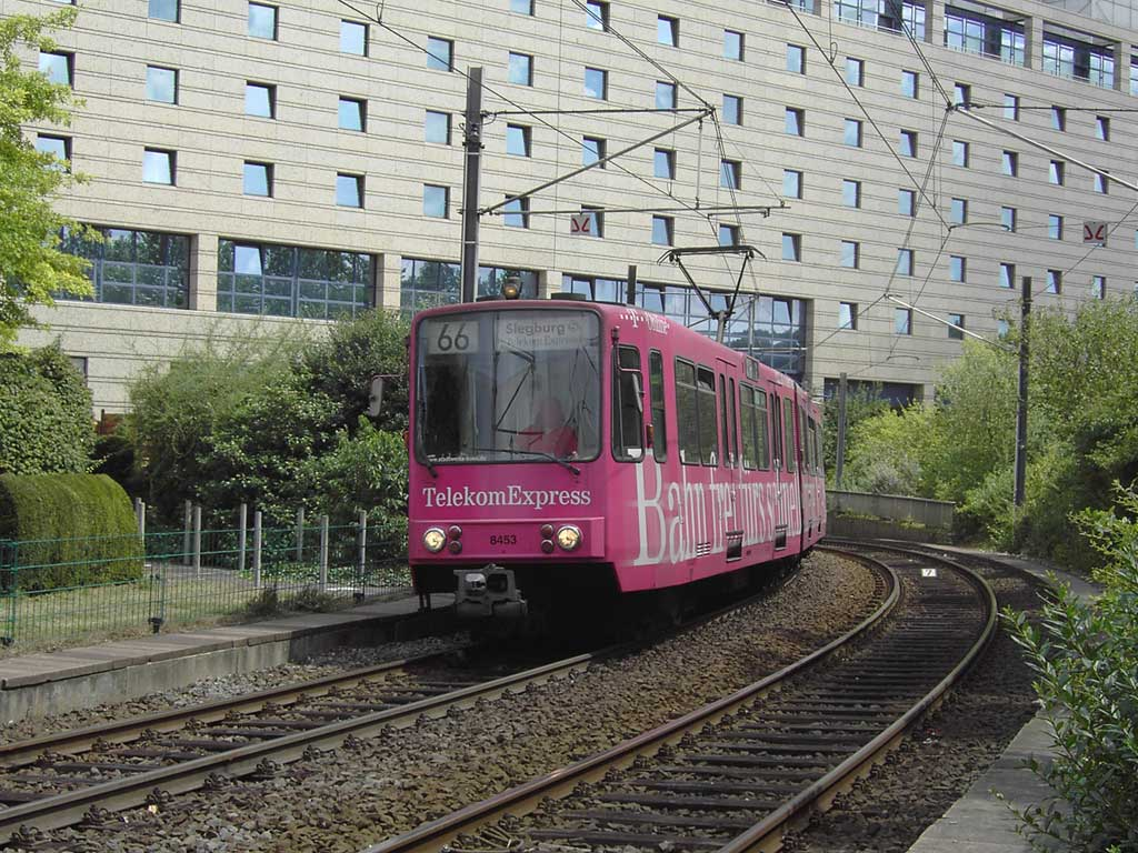 Urban railway under the Maritim hotel in Bonn.